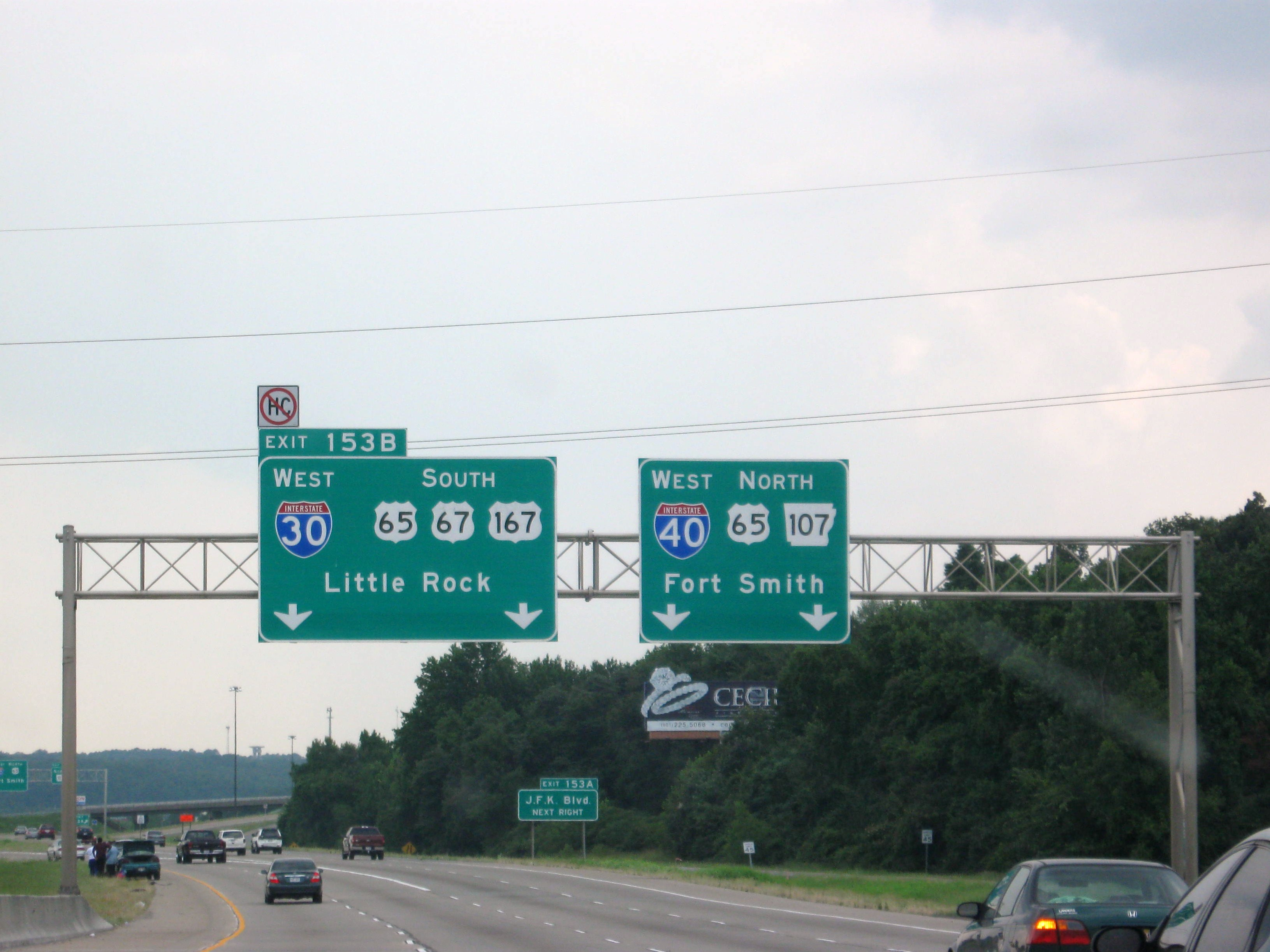 I-30 begins here at I-40 in North Little Rock